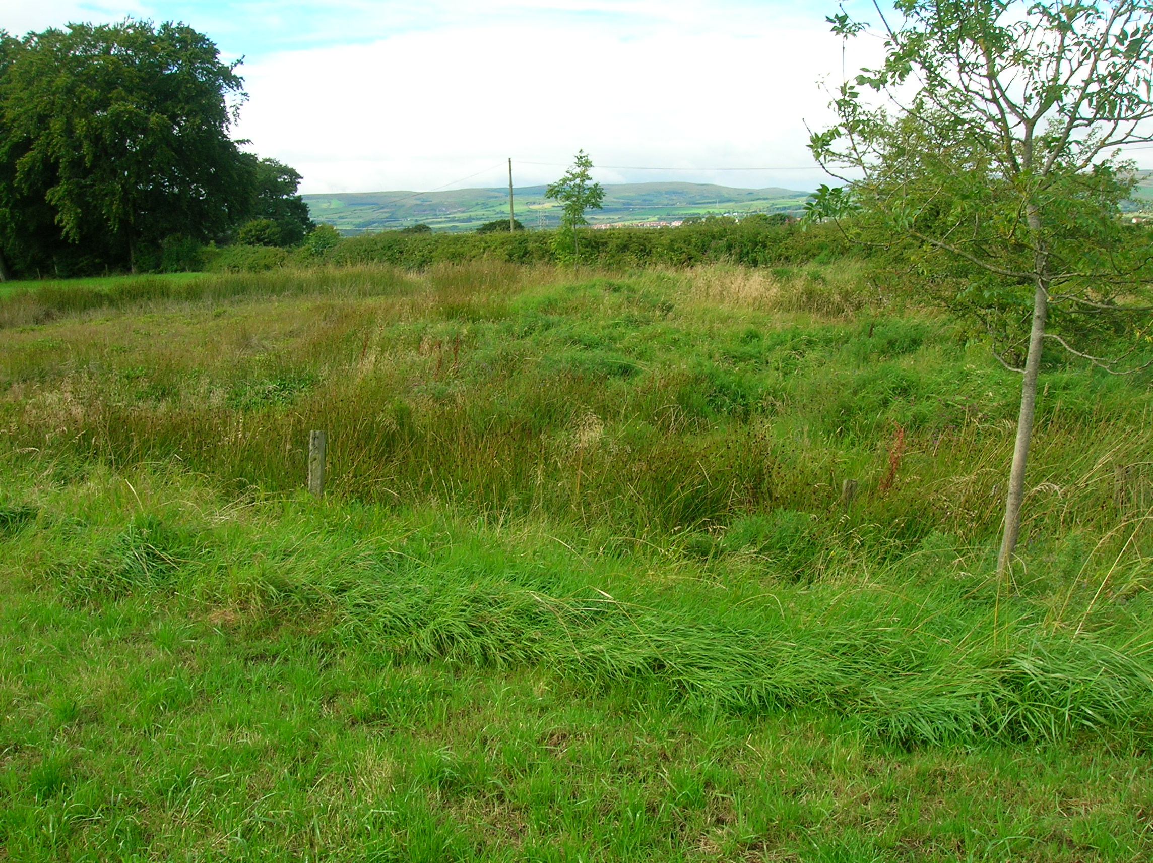 The Baney Hole near Windyhouse Farm, Barrmill, Ayrshire, Scotland. An old quarry or bell pit.